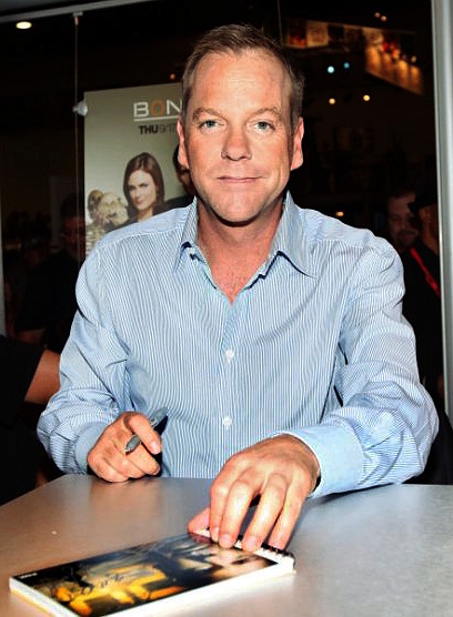 Kiefer Sutherland after signing an autograph